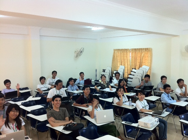 This image was taken in a Wikipedia workshop at Build Bright University during BlogFest.Asia 2012.